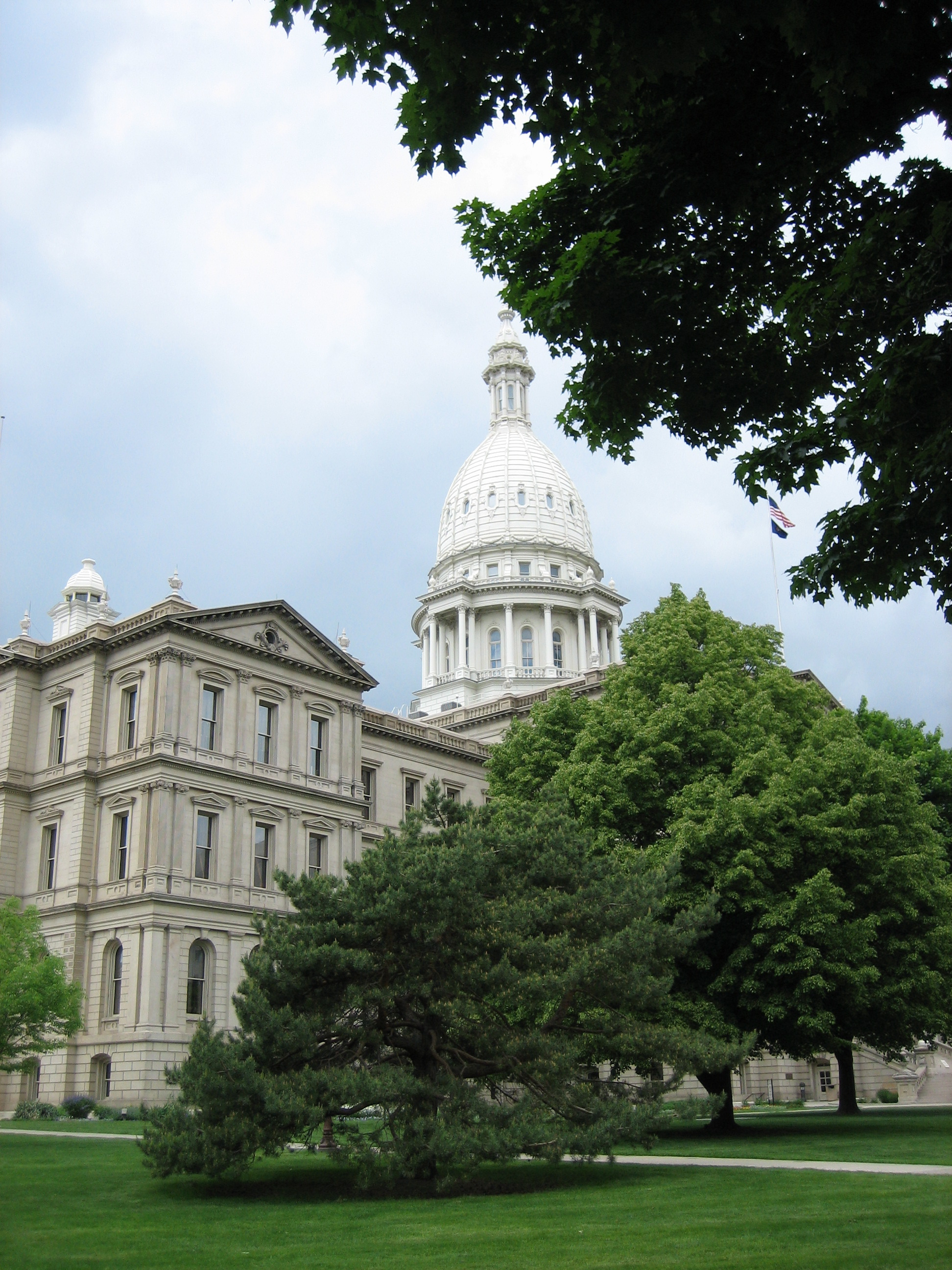 Michigan State Capitol, Lansing, Michigan, USA.